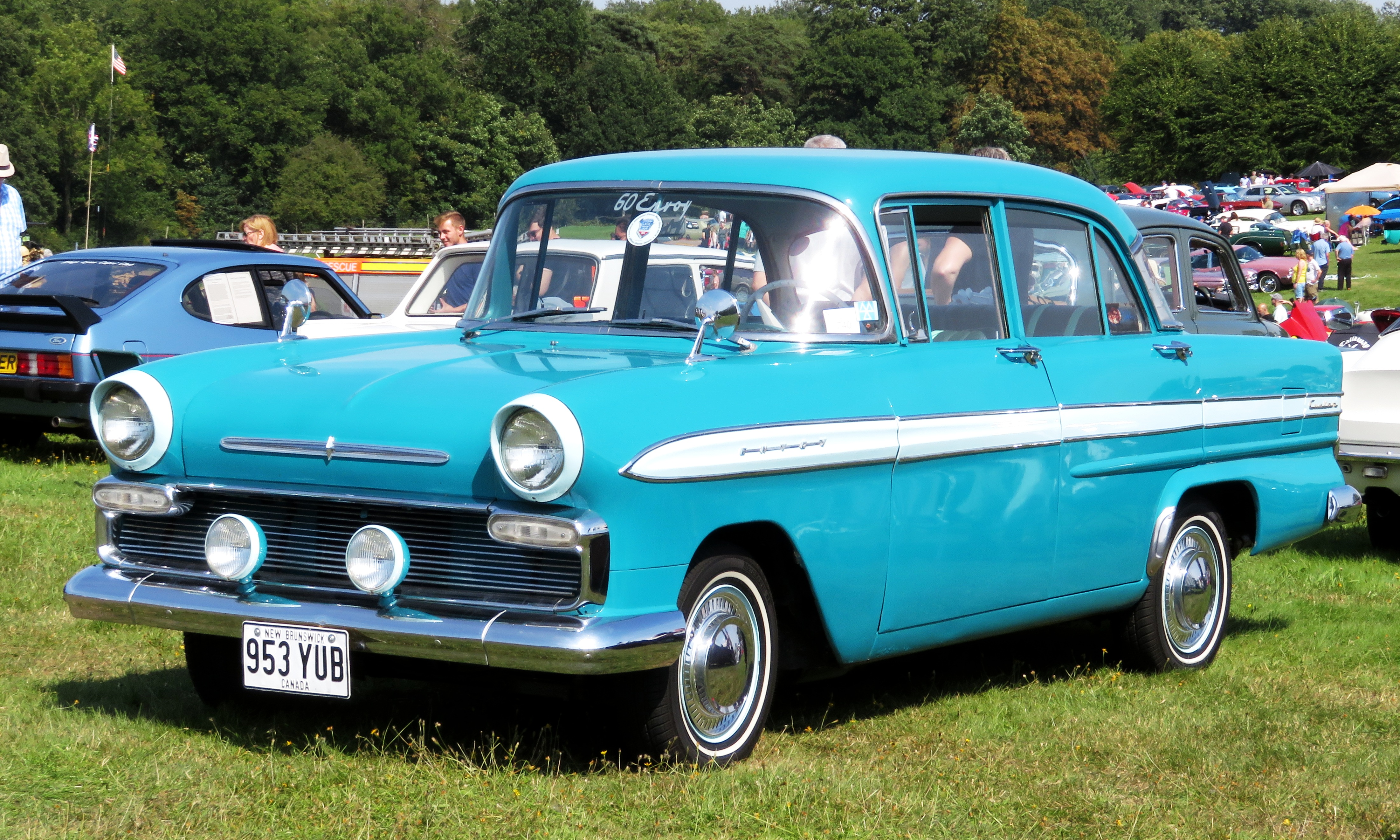 Vauxhall Envoy (aka Victor for Canada) (1960) at Knebworth (2017)